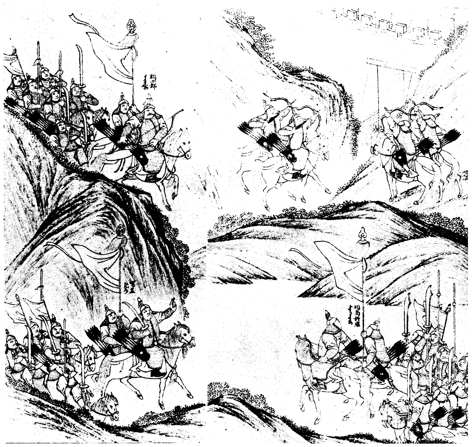 三將圍攻佛多和山城